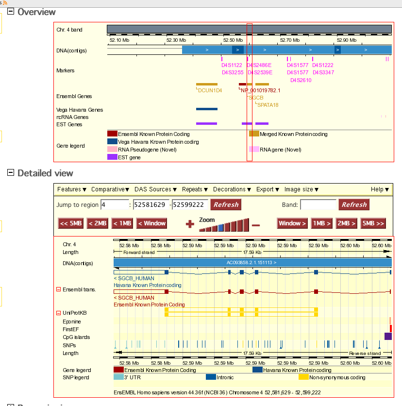 Alignment of the gene SGCB (beta sarcoglycan) with the human reference genome